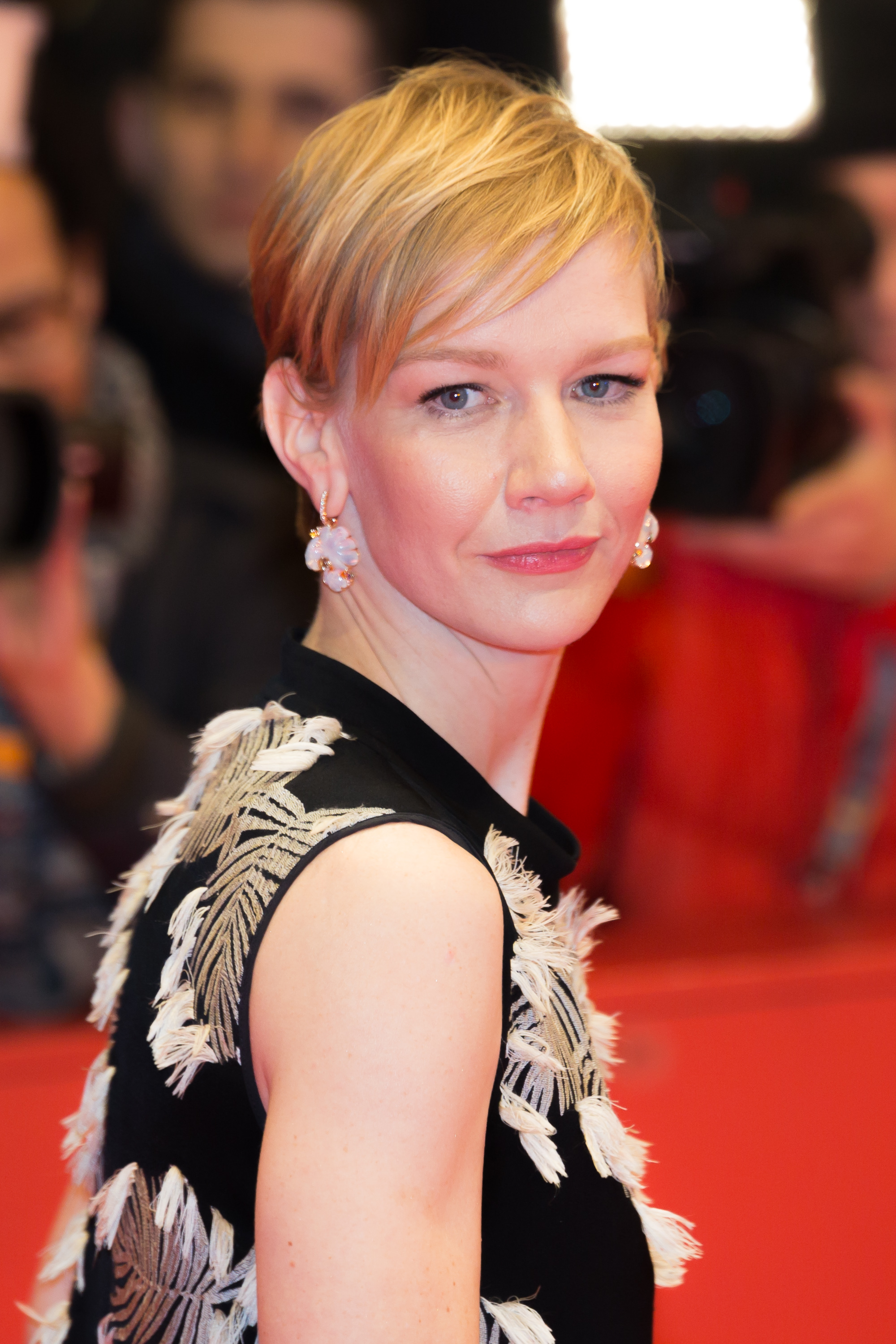 Sandra Hüller on the red carpet of the Berlinale 2017 opening film